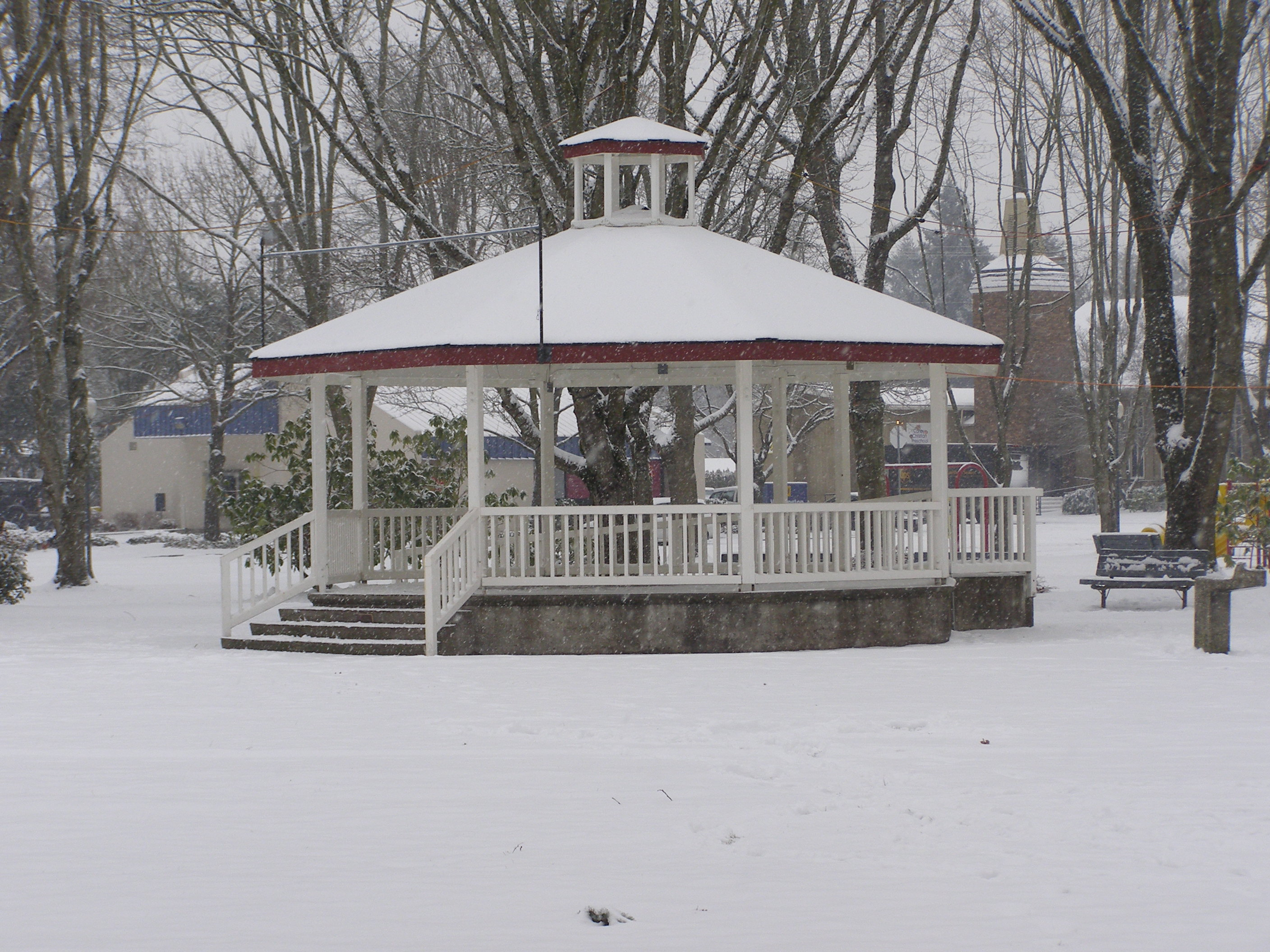 A photo I took of the Gazebo in Wait Park, Canby, Oregon, on January 16, 2007, after a snowstorm.